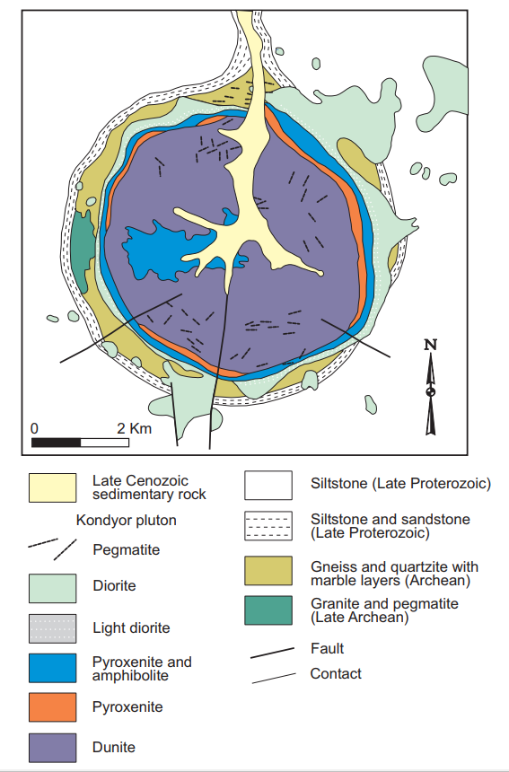 Kondyor geologic map